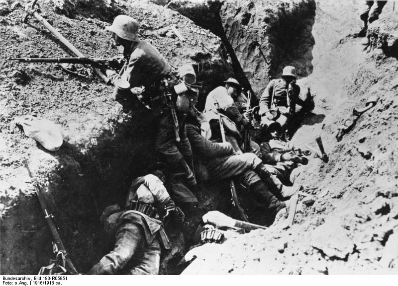 At the front at Arras. German soldiers in the trenches during a break in the battle. Resting reserve units. Trench holes.